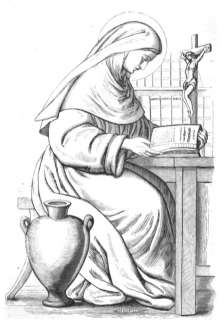 Drawing of the Galician Benedictine Saint Senorina of Basto from Charles Cahier's Caractéristiques des saints dans l'art populaire